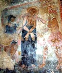 Fresco depicting the martyrdom of Saint Febronia, sandwiched between two authors in the act of cutting cavarle breasts and teeth. Located at rock-Hermitage Byzantine St. Febronia in the "cost" of Palagonia (CT). Photo: Giuseppe Maggiore.